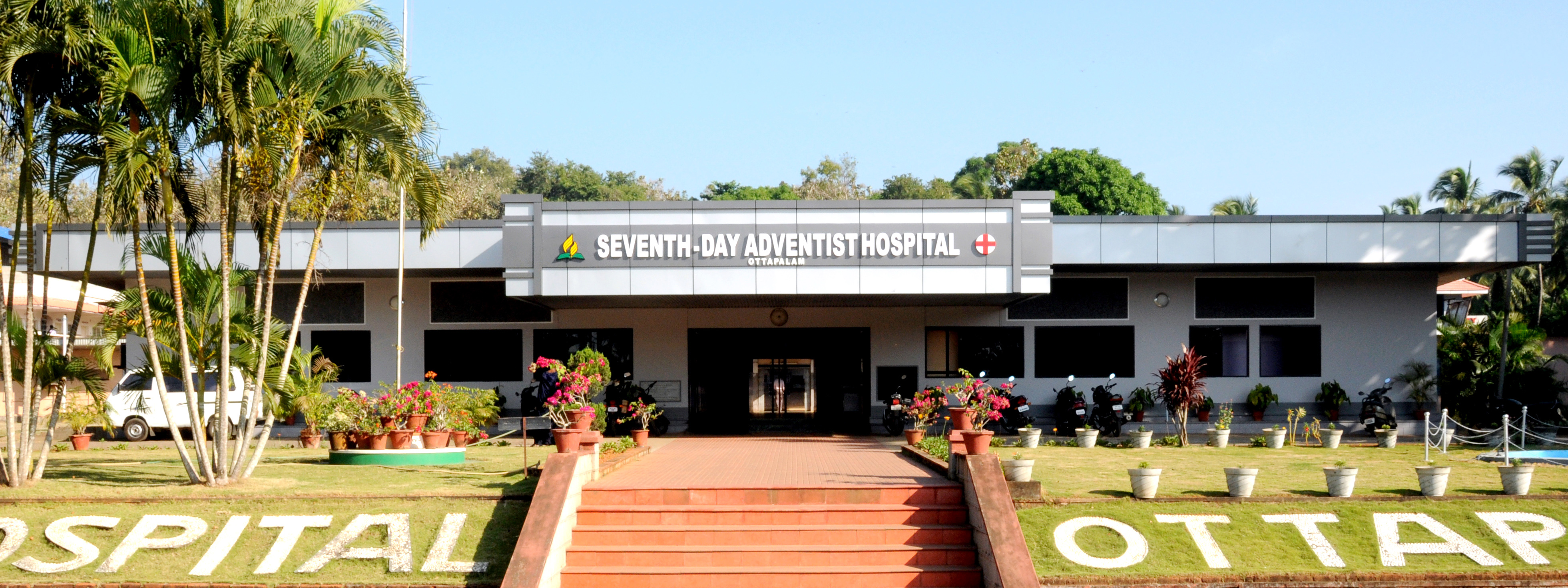 Seventh-Day Adventist Hospital, Ottapalam